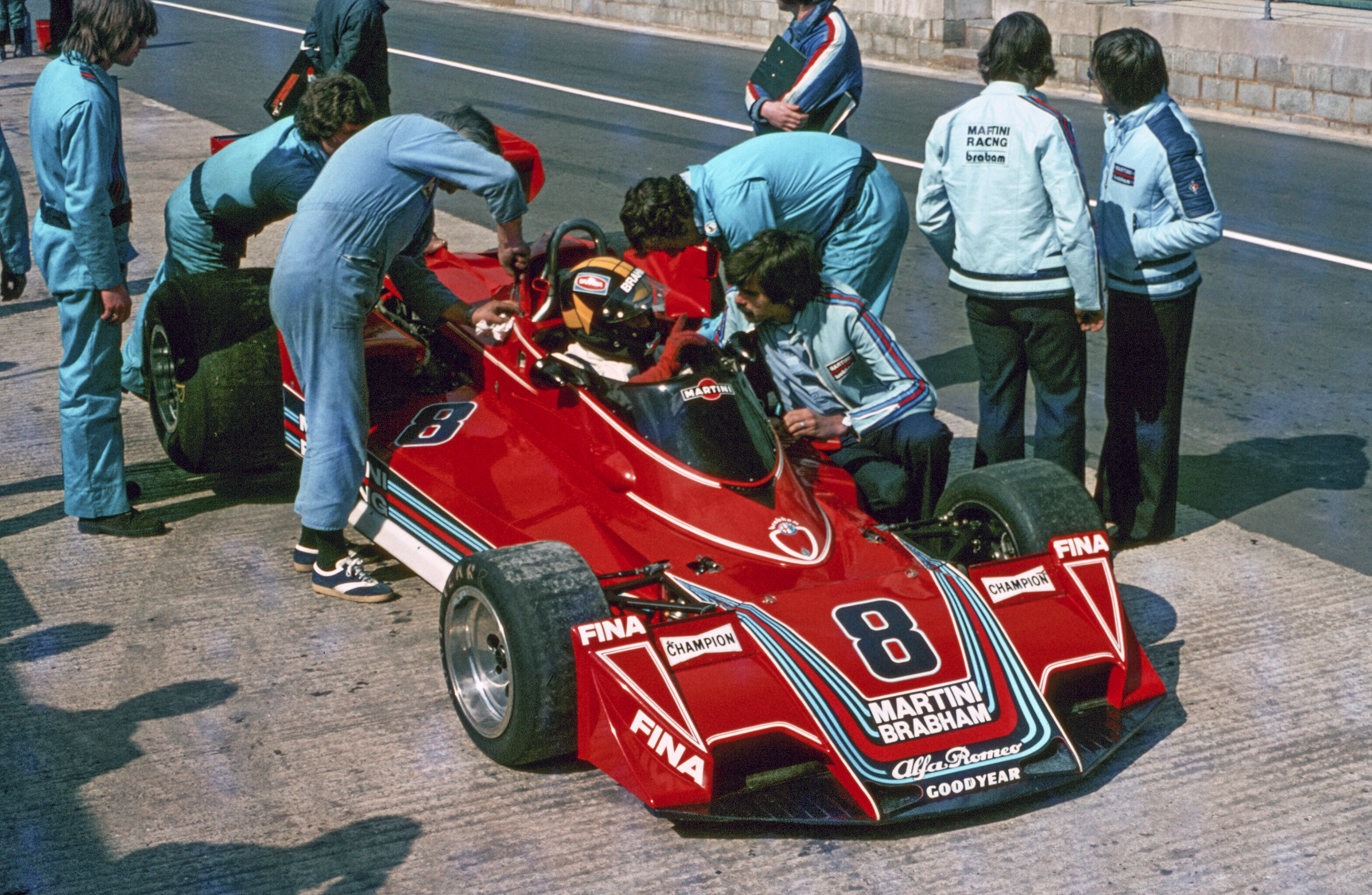 Martini Brabham BT45 Alfa Romeo Team with Manager Bernie Ecclestone, Chief Designer Gordon Murray (RSA), driver Carlos Pace, Chief Engineer Charlie Whiting to the right of Gordon - at the Graham Hill International Trophy, Silverstone Circuit, England (1976). Summary Description